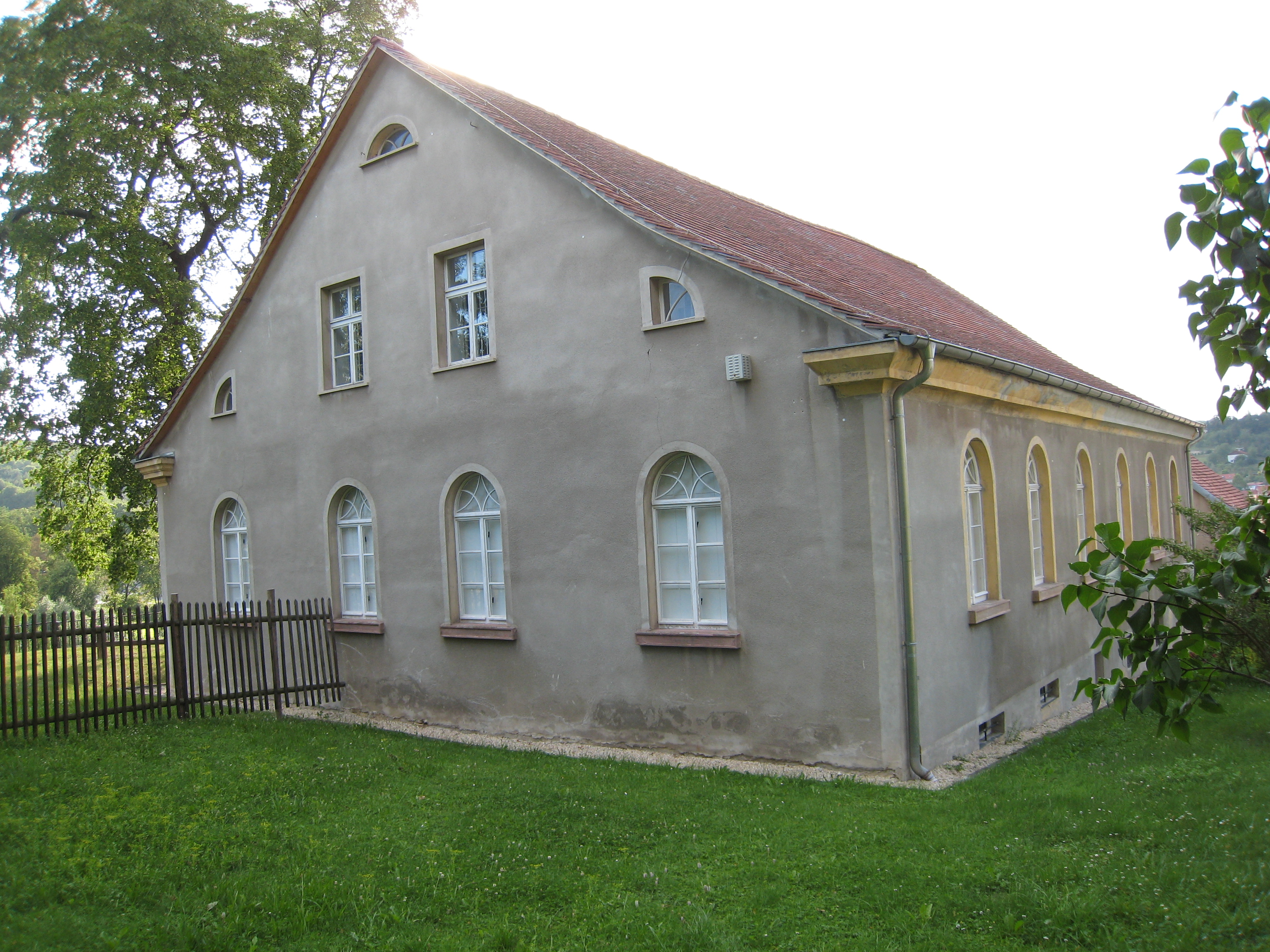 Jahn museum Freyburg, Schloßstraße 11